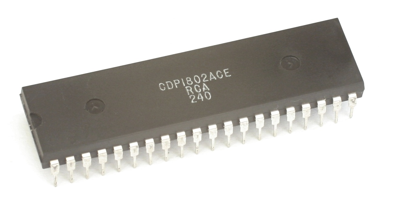 CPU RCA CDP1802